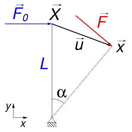 Auf eine drehbar gelagerte Wand wird senkrecht eine Kraft F